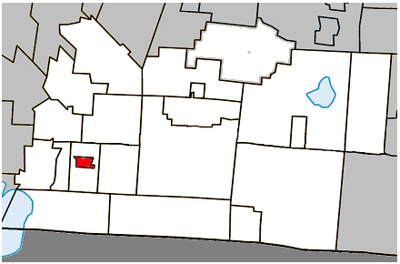 Location of Bedford (city), Quebec within Brome-Missisquoi Regional County Municipality.